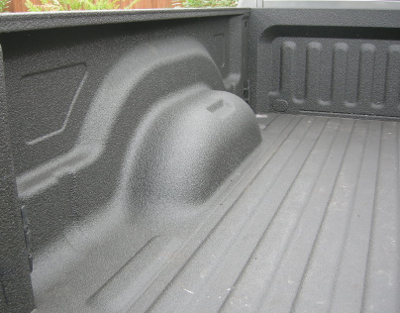 Example of a polyurethane polyurea bedliner. spray in bedliner after installation.